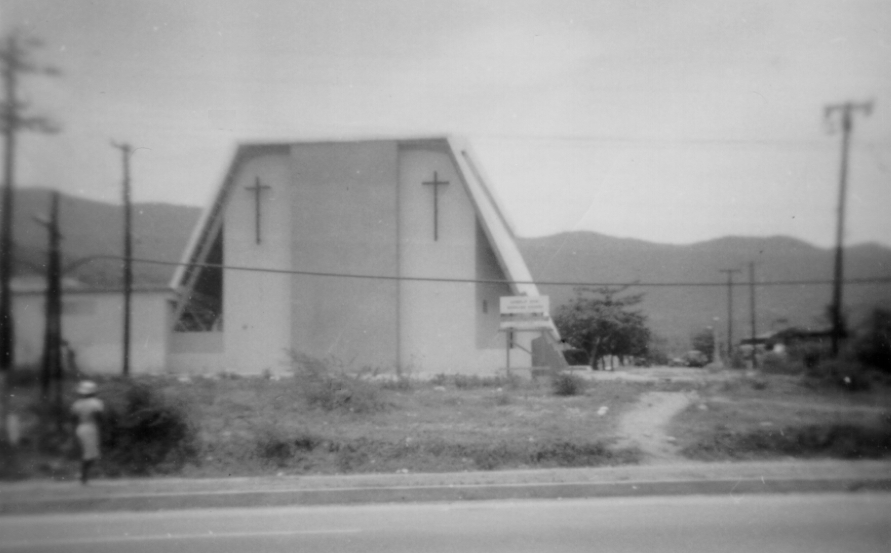 Harbour View Moravian Church, Kingston, Jamaica as it was in 1967. Black and white photograph.